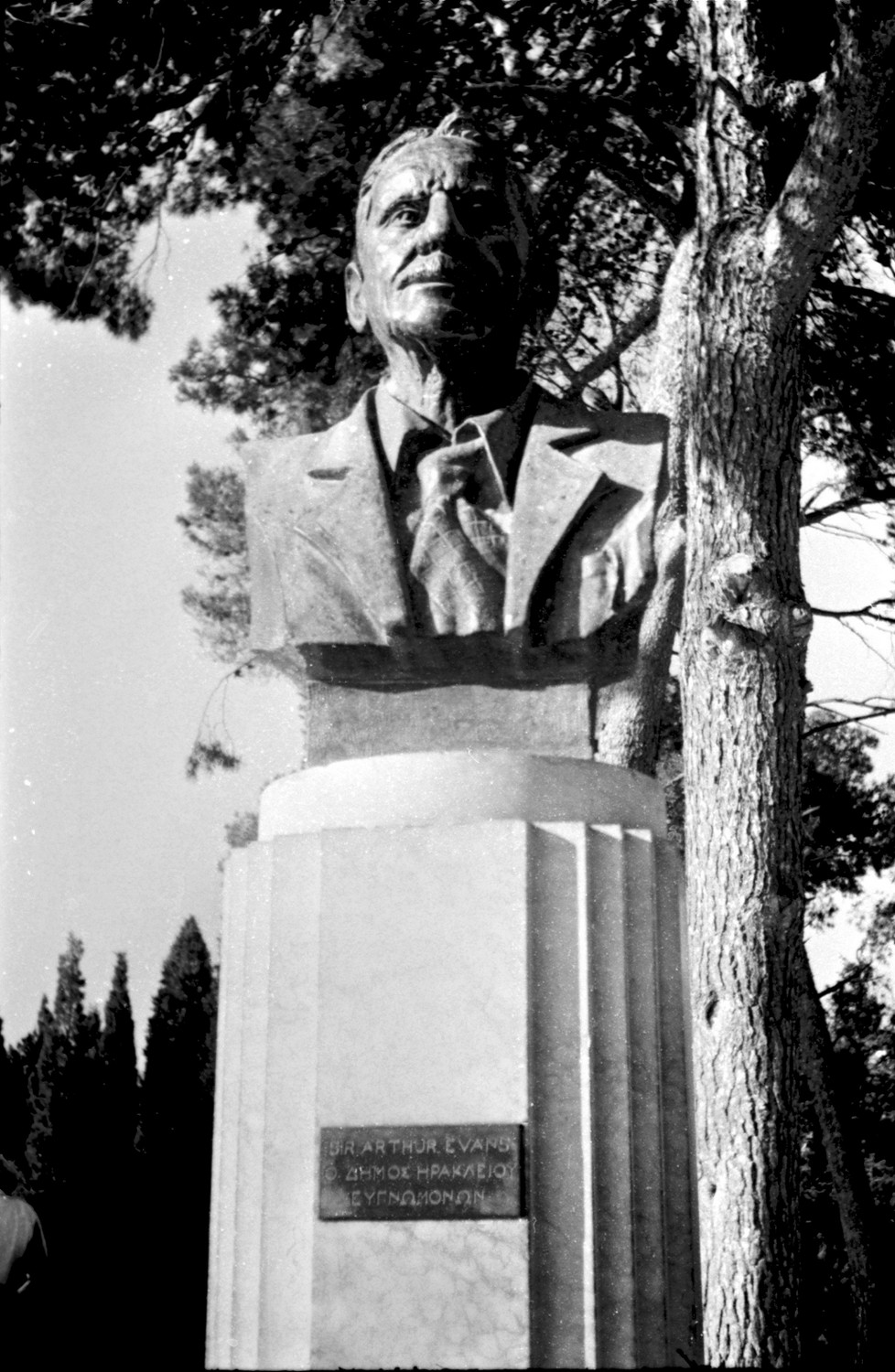 Statue of Sir Arthur Evans at Knossos